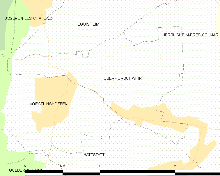 Map of French municipality